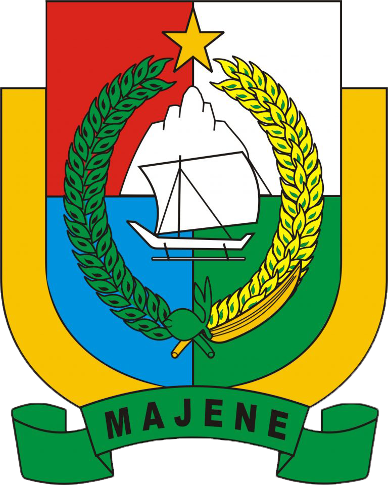 Coat of Arms (Lambang) of Regency (Kabupaten) Majene, Provinsi Sulawesi Barat (West Sulawesi), Indonesia